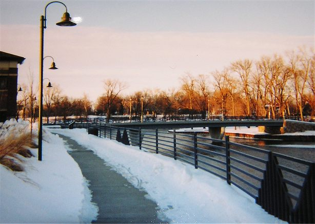 my camera